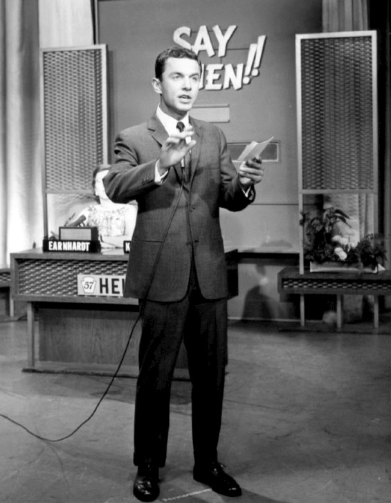 Publicity photo of host Art James from the television program Say When!!.